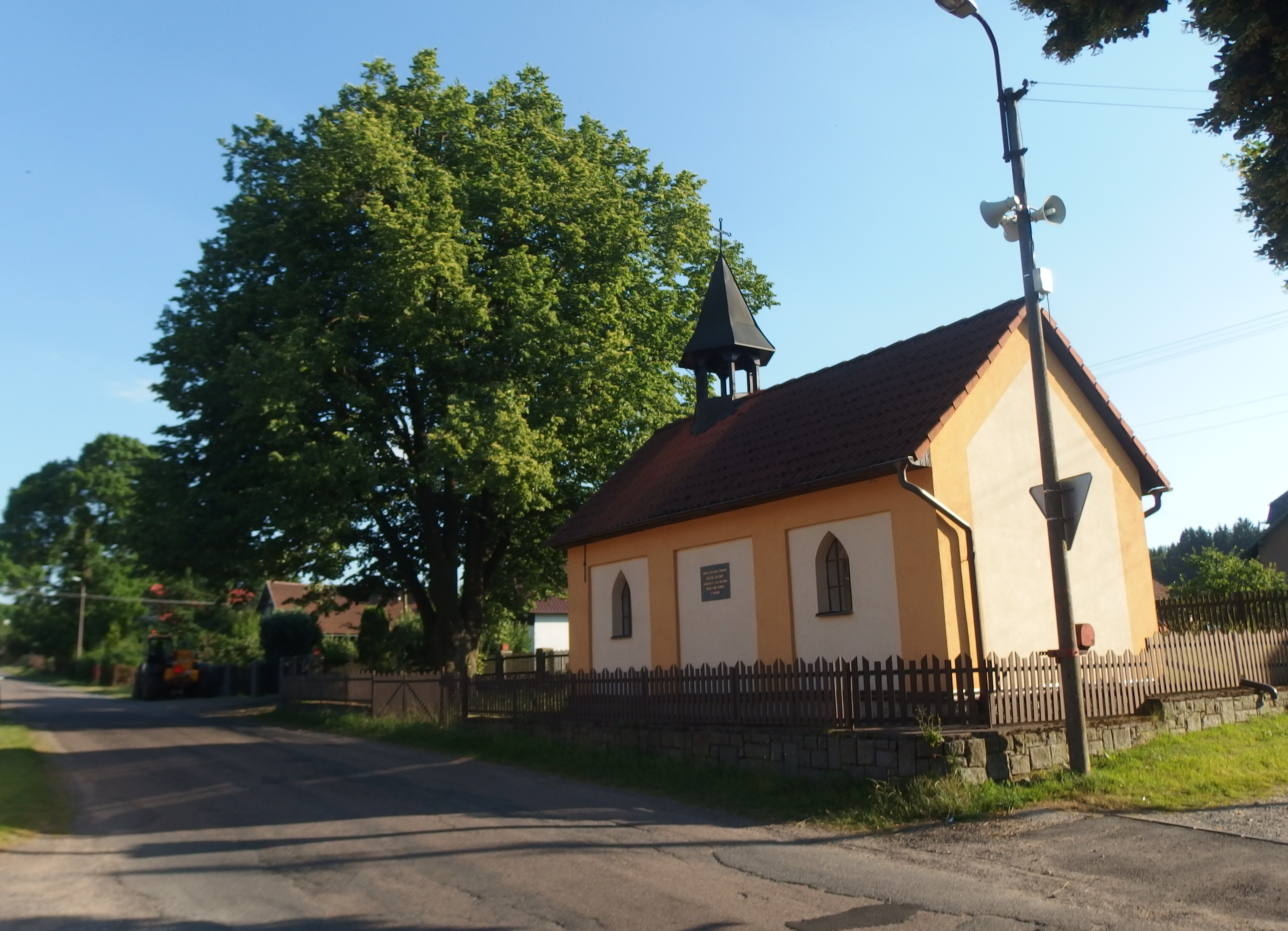 Kladno, Chrudim District, Czech Republic.